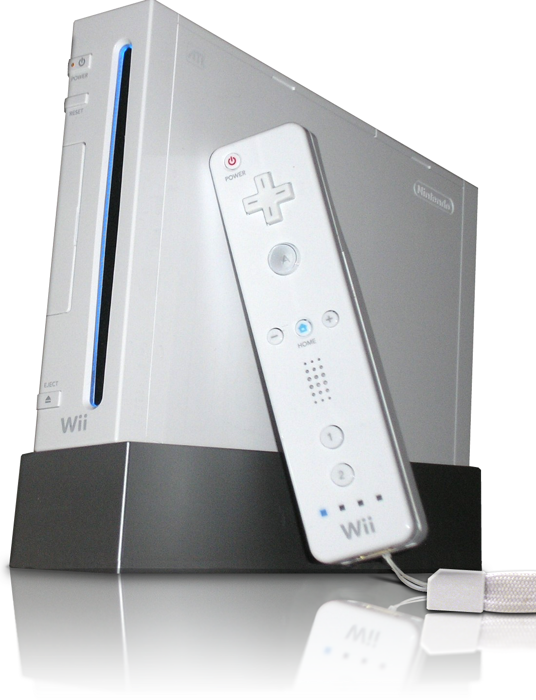 Wii with Wiimote (transparent background with reflection).